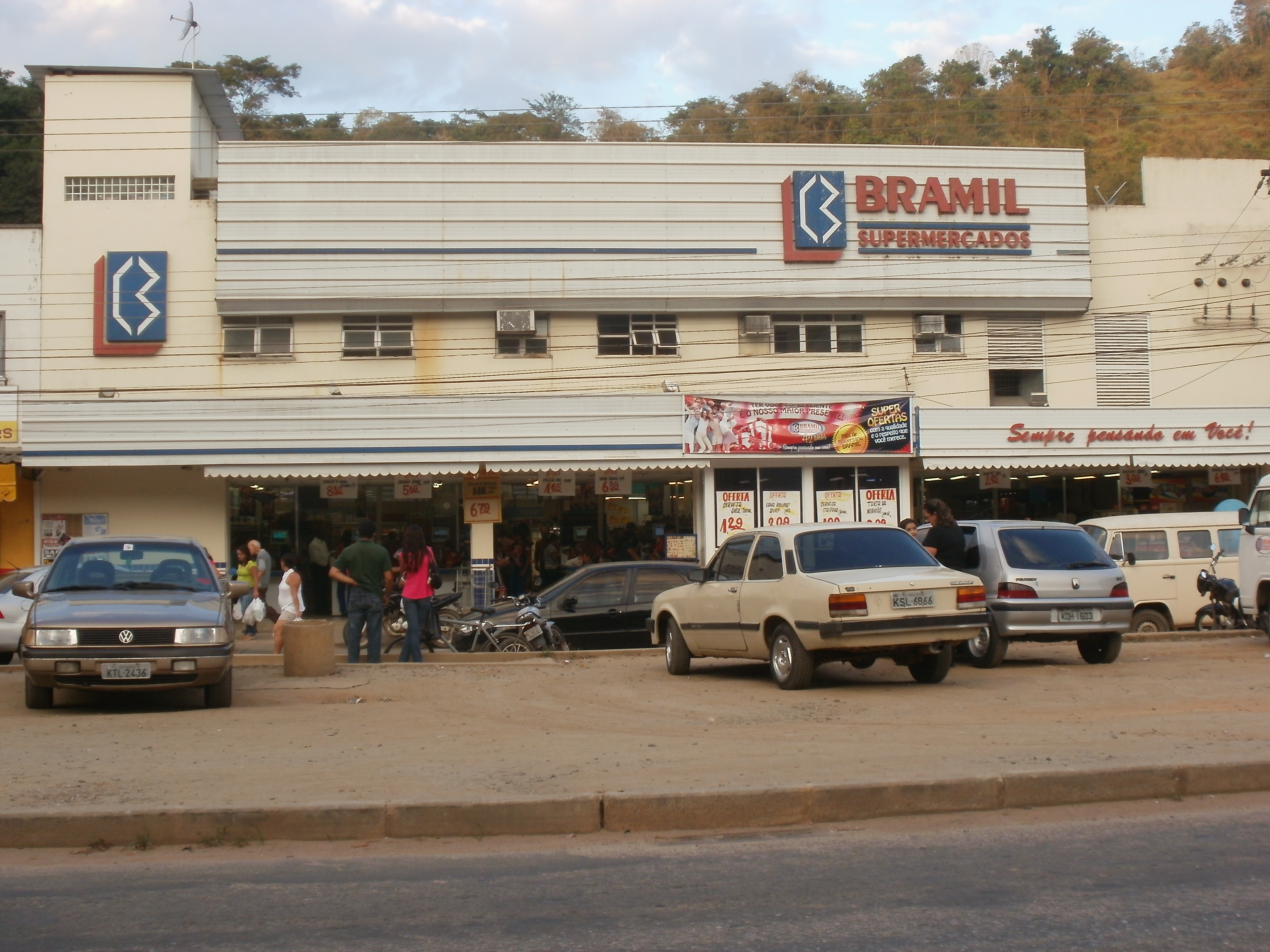 Bramil Supermarket, in Areal downtown, Rio de Janeiro state, Brazil.